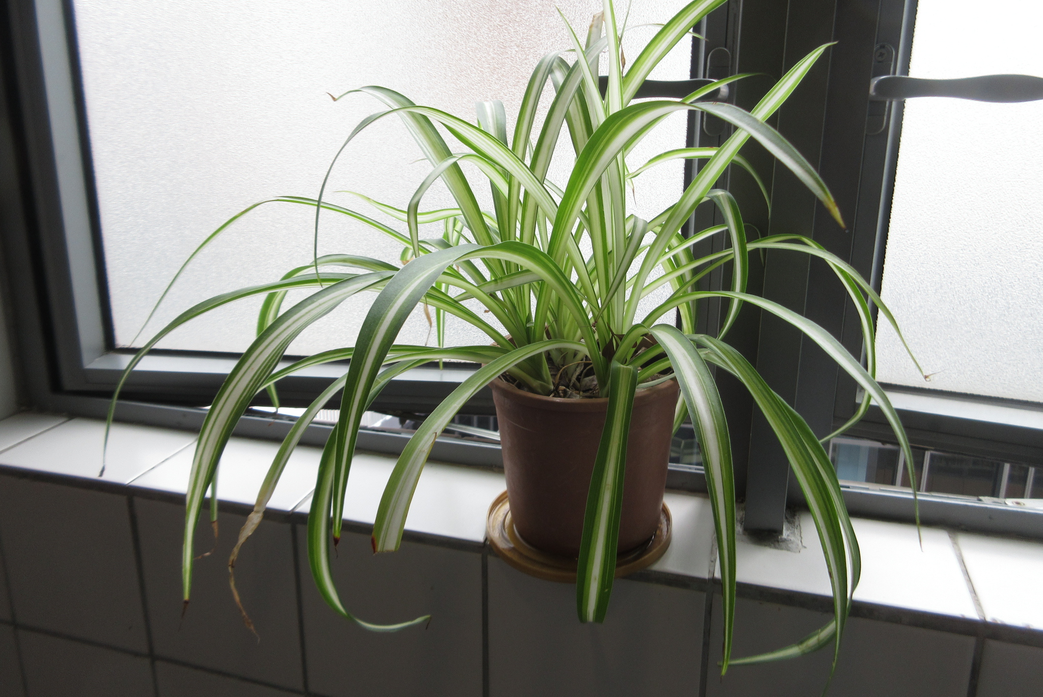 HK TKL Tiu Keng Leng CBCC green 蘭花 Chlorophytum cultivar plant in February 2018